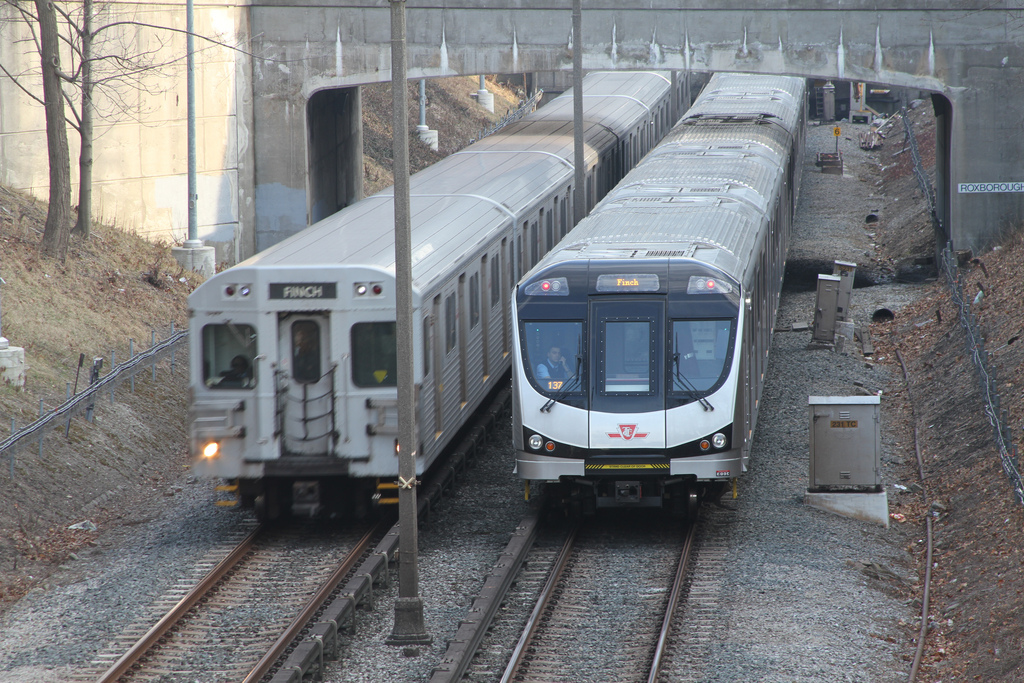 Toronto subway trains, old and new, north of Rosedale Station at Roxborough Street in Toronto "Rosedale - the guy in the new rocket's cab was totally glaring at me."